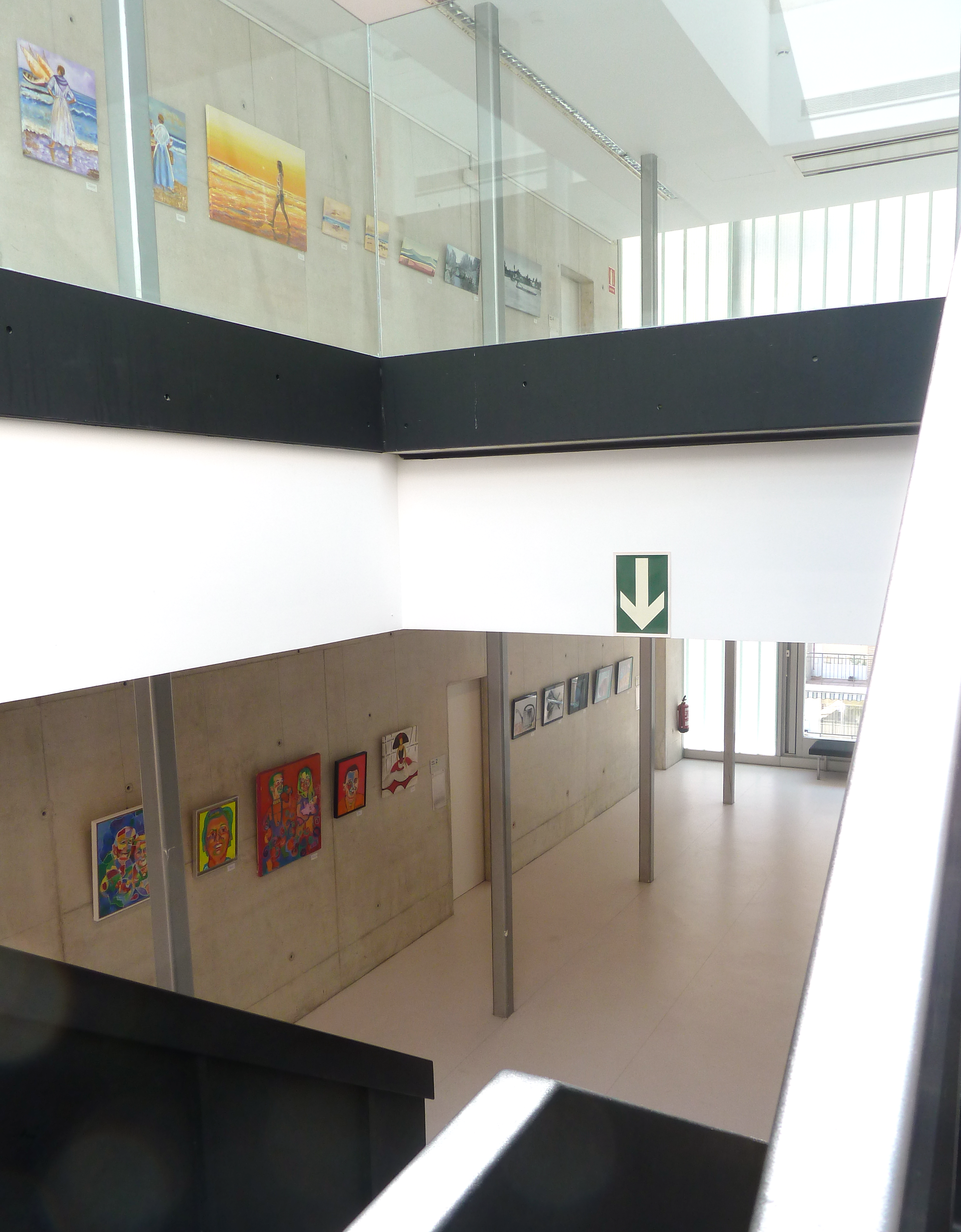 Exhibition area at the building Civivox San Jorge (Pamplona/Iruña). As with the other activities that are scheduled in the Civivox, the exhibitions also need to be agreed with the technical staff of the company awarded to manage the Civivox centers.